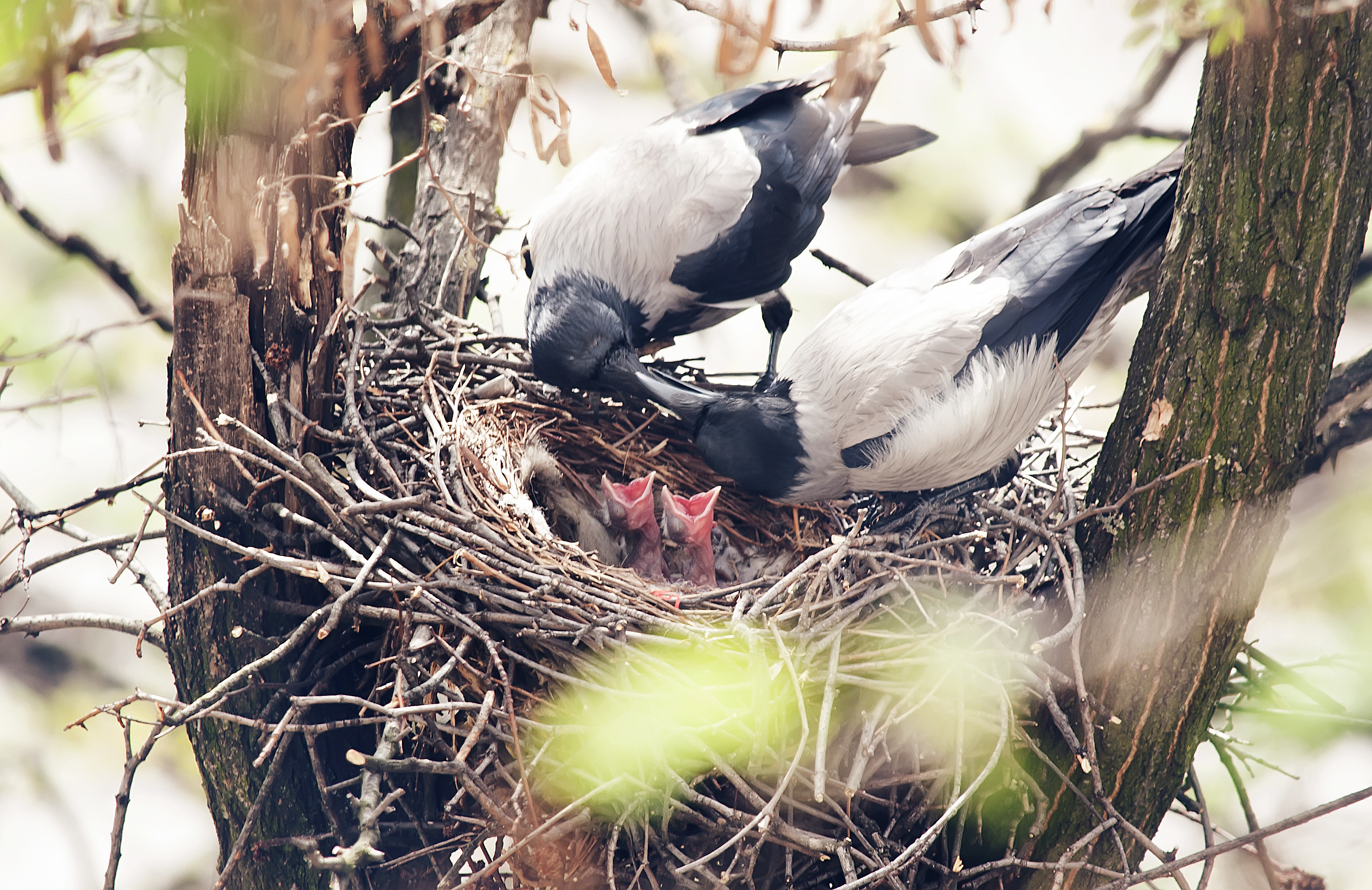 The father , who flew with food , first puts the food in the mother's beak, and then , breaking off small pieces , feeds the chicks . Corvus Cornix.